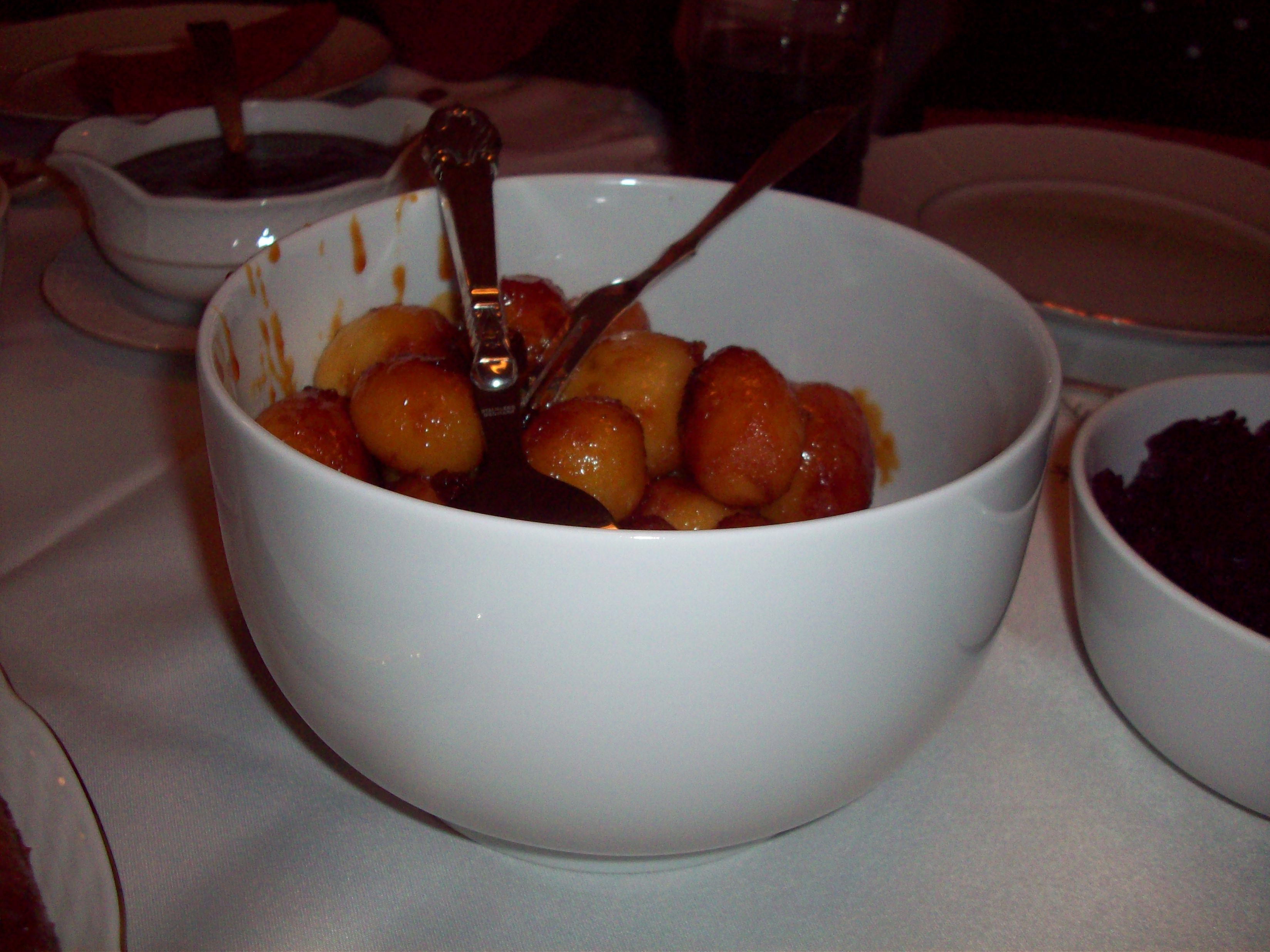 Caramelized potatoes